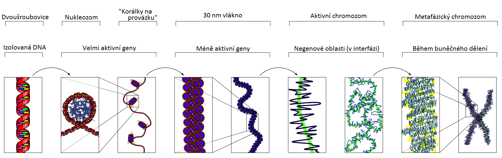 The major chromatin structures.